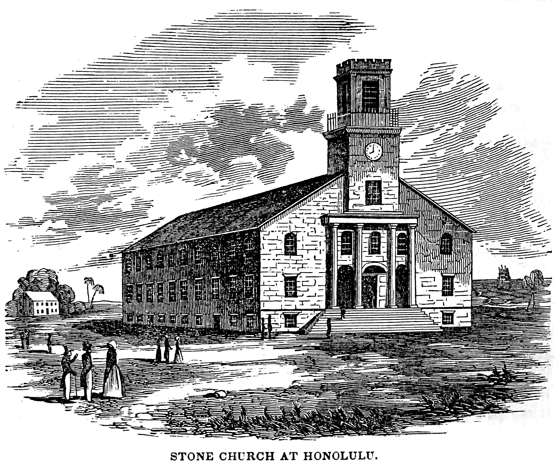 Stone Church at Honolulu from his book A Residence of Twenty-one Years in the Sandwich Islands.